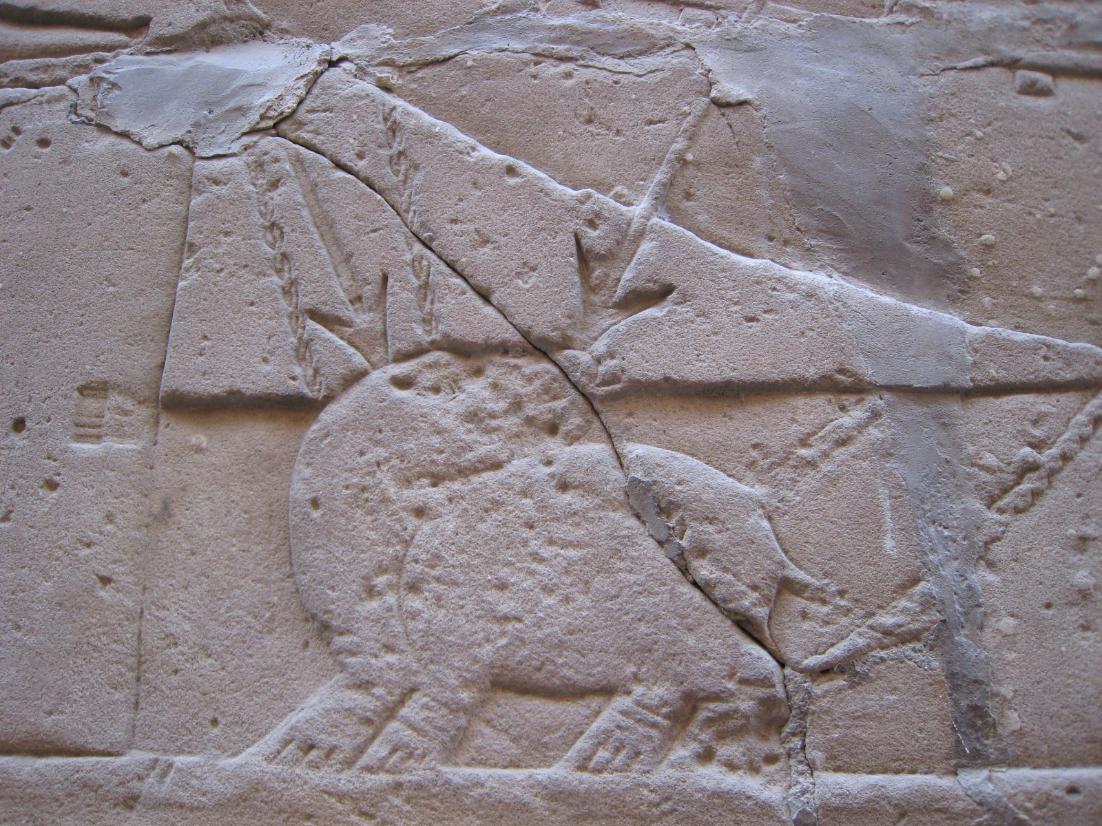 poor little hippo Seth!